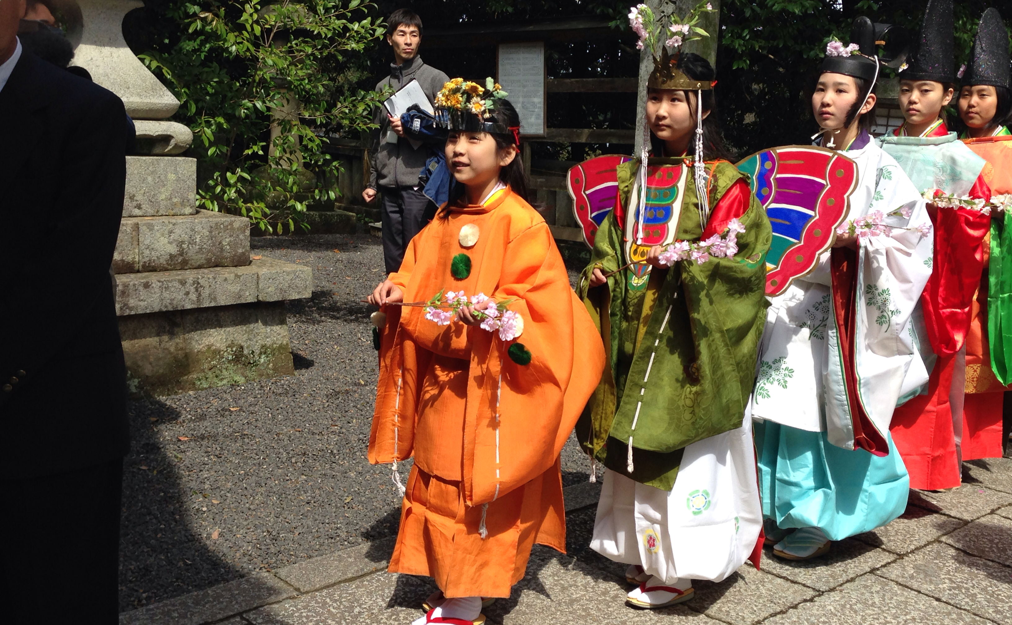 Hana sjozume no matsuri. April 6, 2014. Because of bad weather, it was rainy weather festival. Girls dressed in costumes of the Heian era.